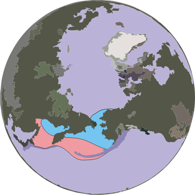 Ribbon seal range, construction based on several sources.